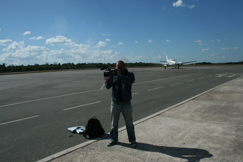 Marabá Airport, in Pará State, Brazil